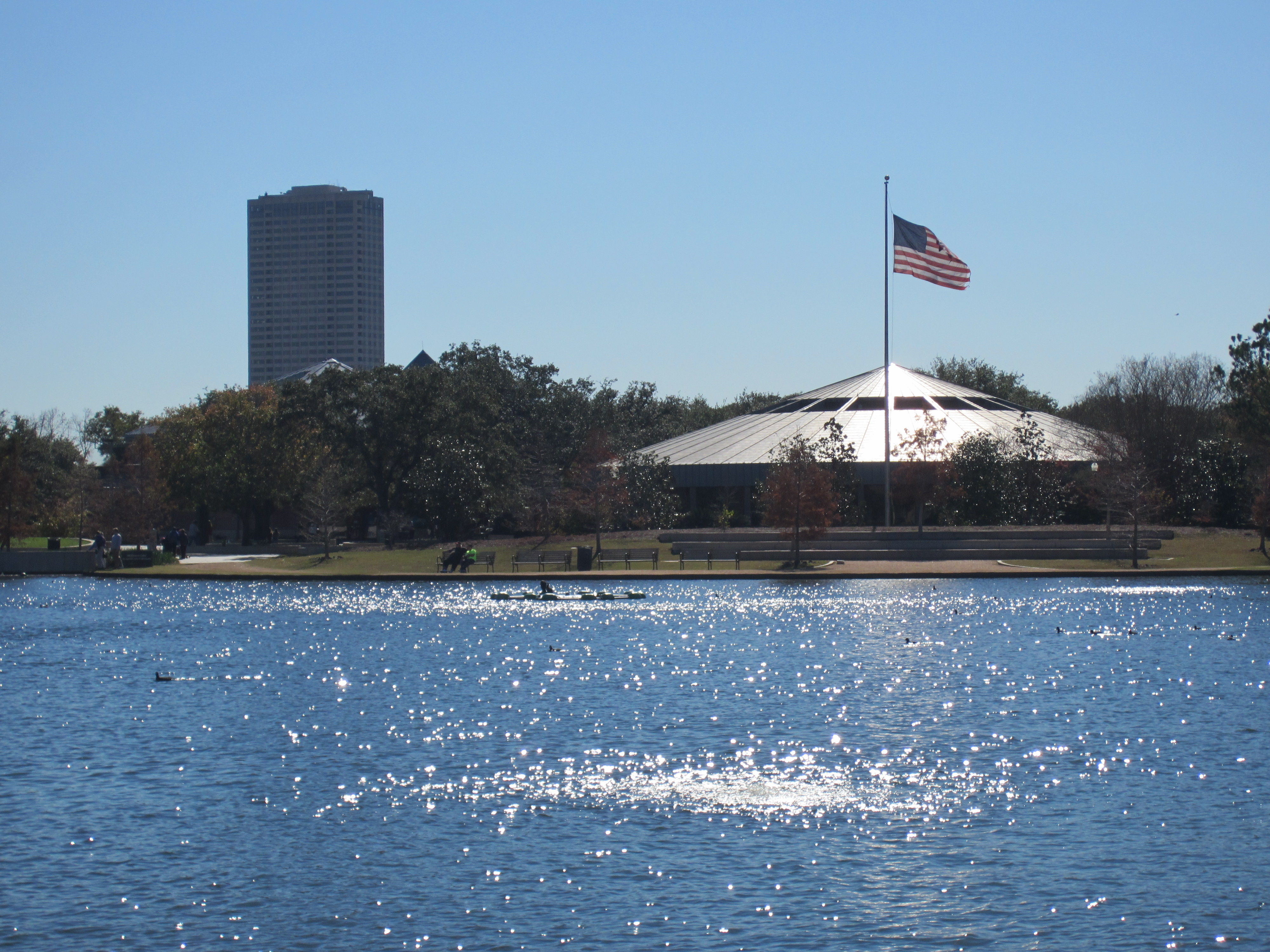 McGovern Lake at Hermann Park in Houston, Texas in January 2012